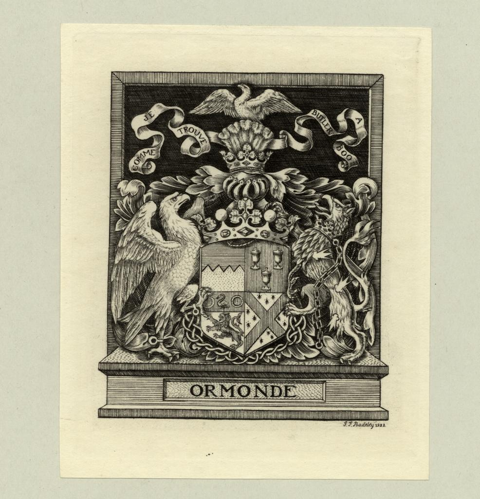 Armorial/Heraldic Bookplates. Subject: Coat of arms; Shields; Animals; Crowns. Subject - Family Name: Ormonde.